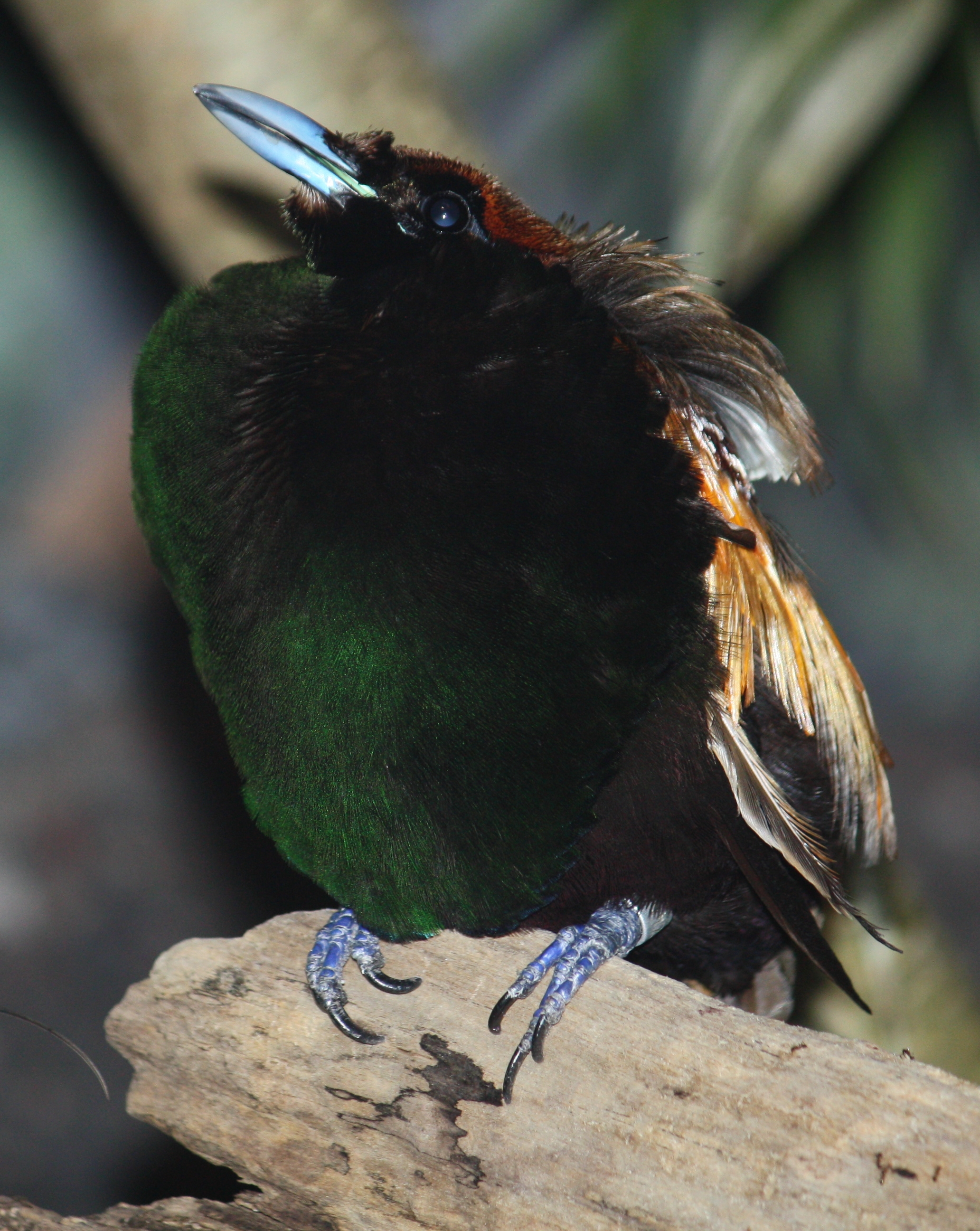 Bird of Paradise Cicinnurus magnificus at the Louisville Zoo